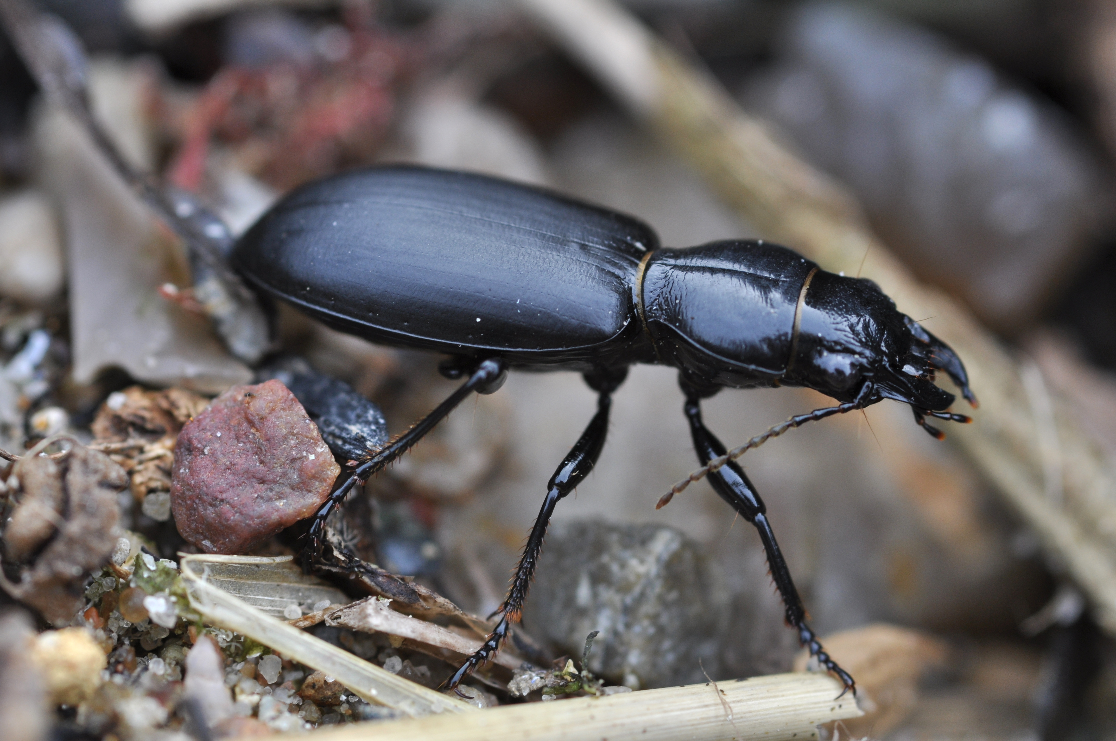 Ground beetle Broscus cephalotes in Heiligenhafen.